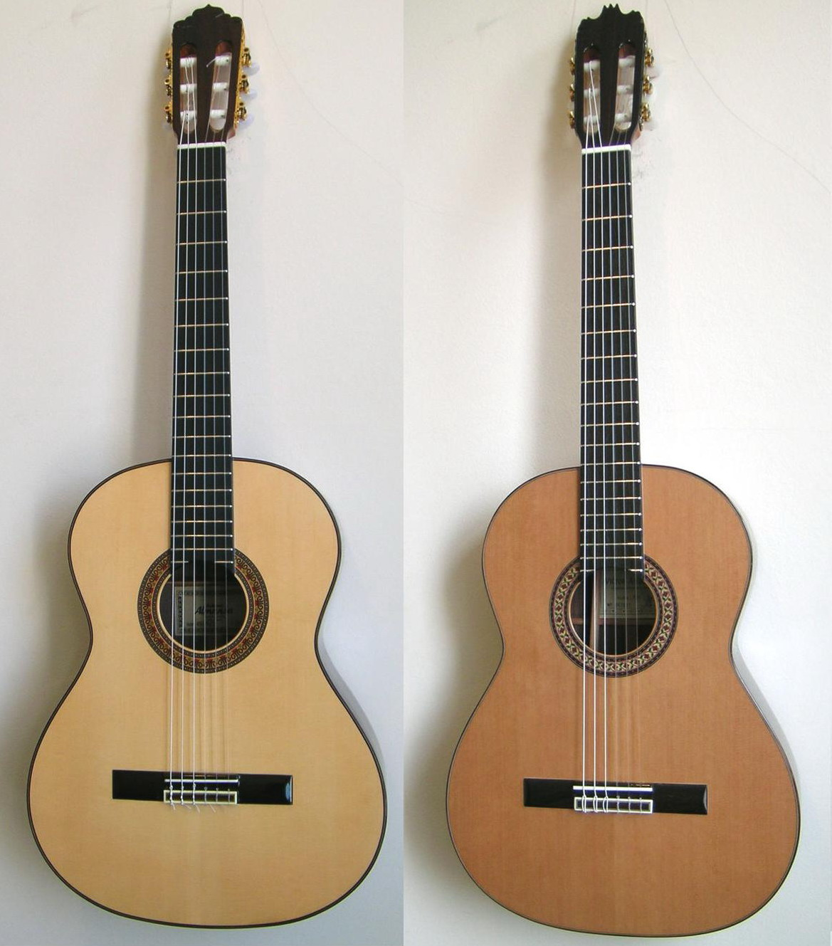 Modern Classical Guitar - Spruce & Cedar Top